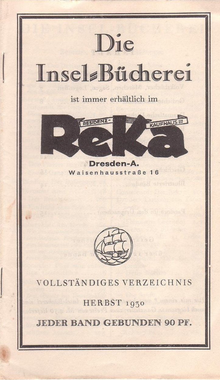 Complete list of editions of the Insel-Buecherei until autumn of 1930